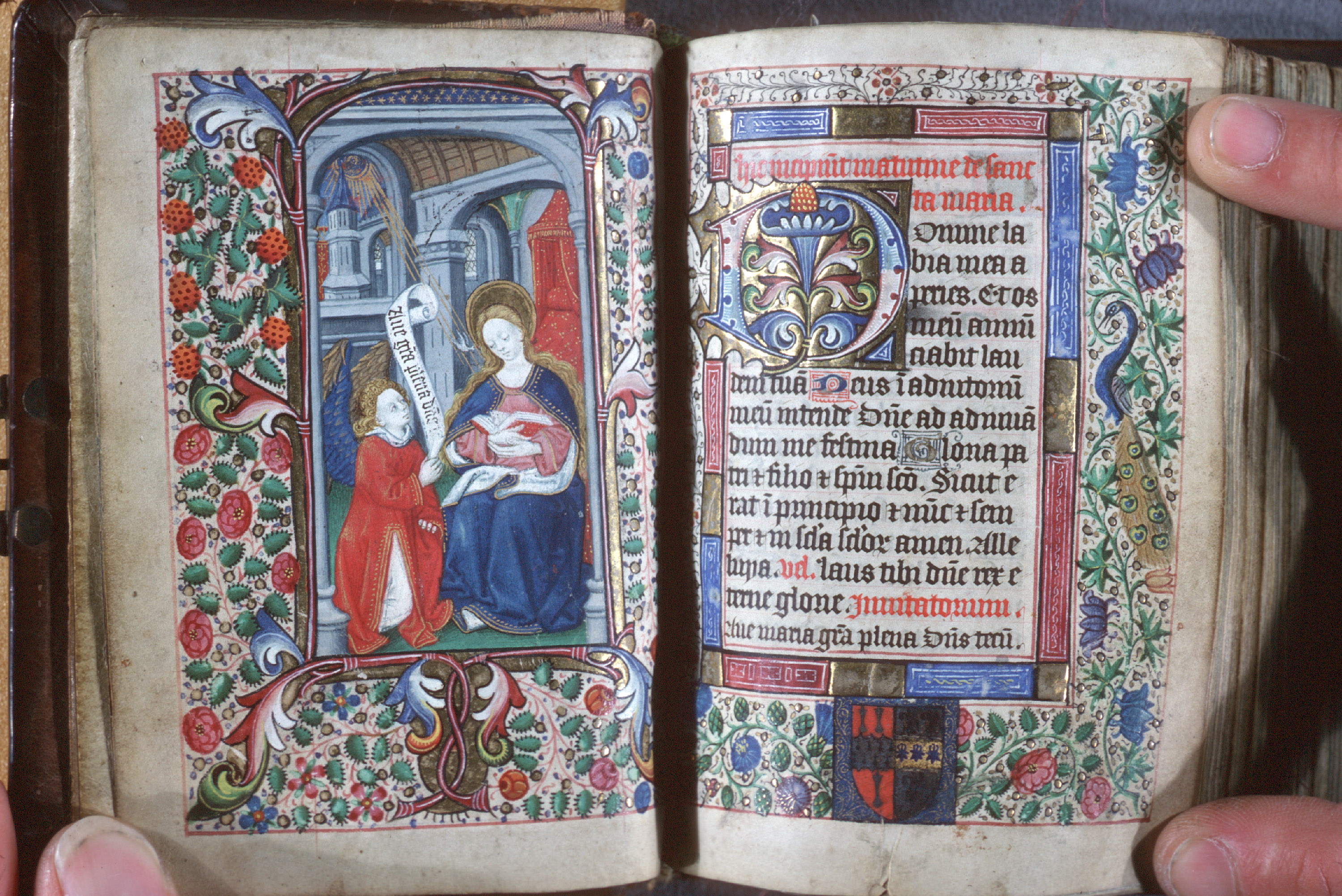 Book of Hours, England, ink, tempera, and gold on parchment, 128 x 88 mm